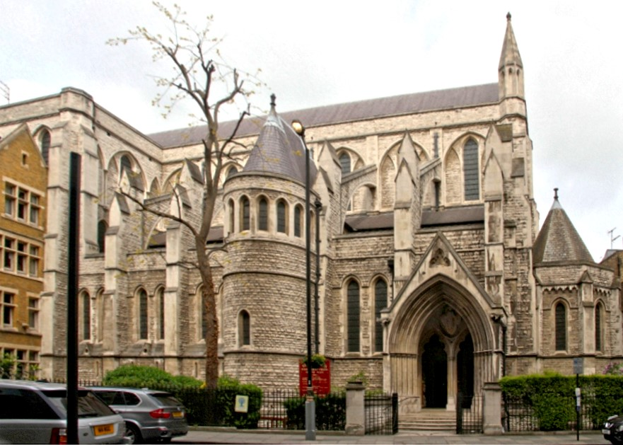 Roman Catholic church of St James Spanish Place, George Street, London W1